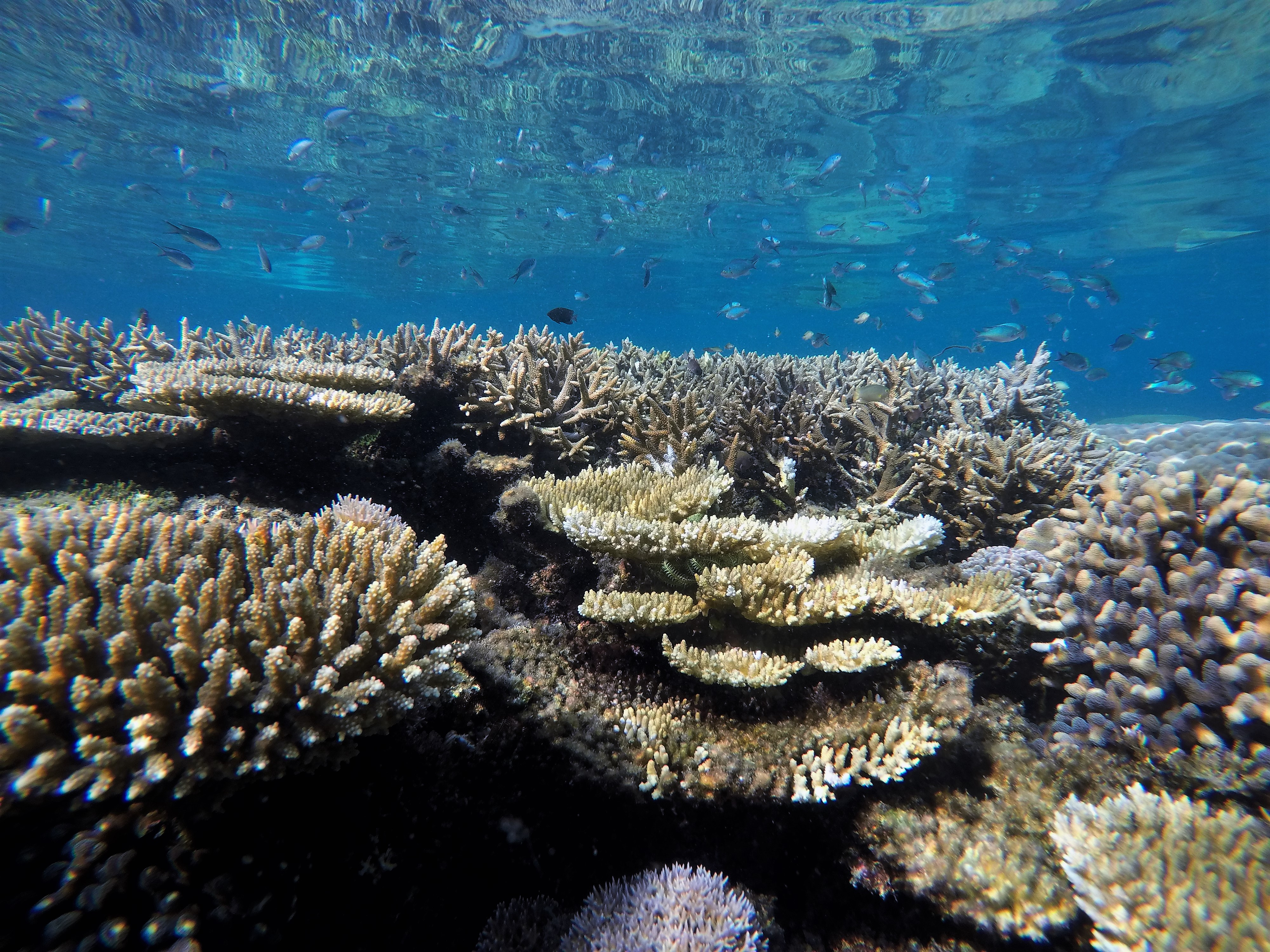 Badi Island is one of the underwater paradise for coral and fish, especially for tourists who want to dive and snorkeling